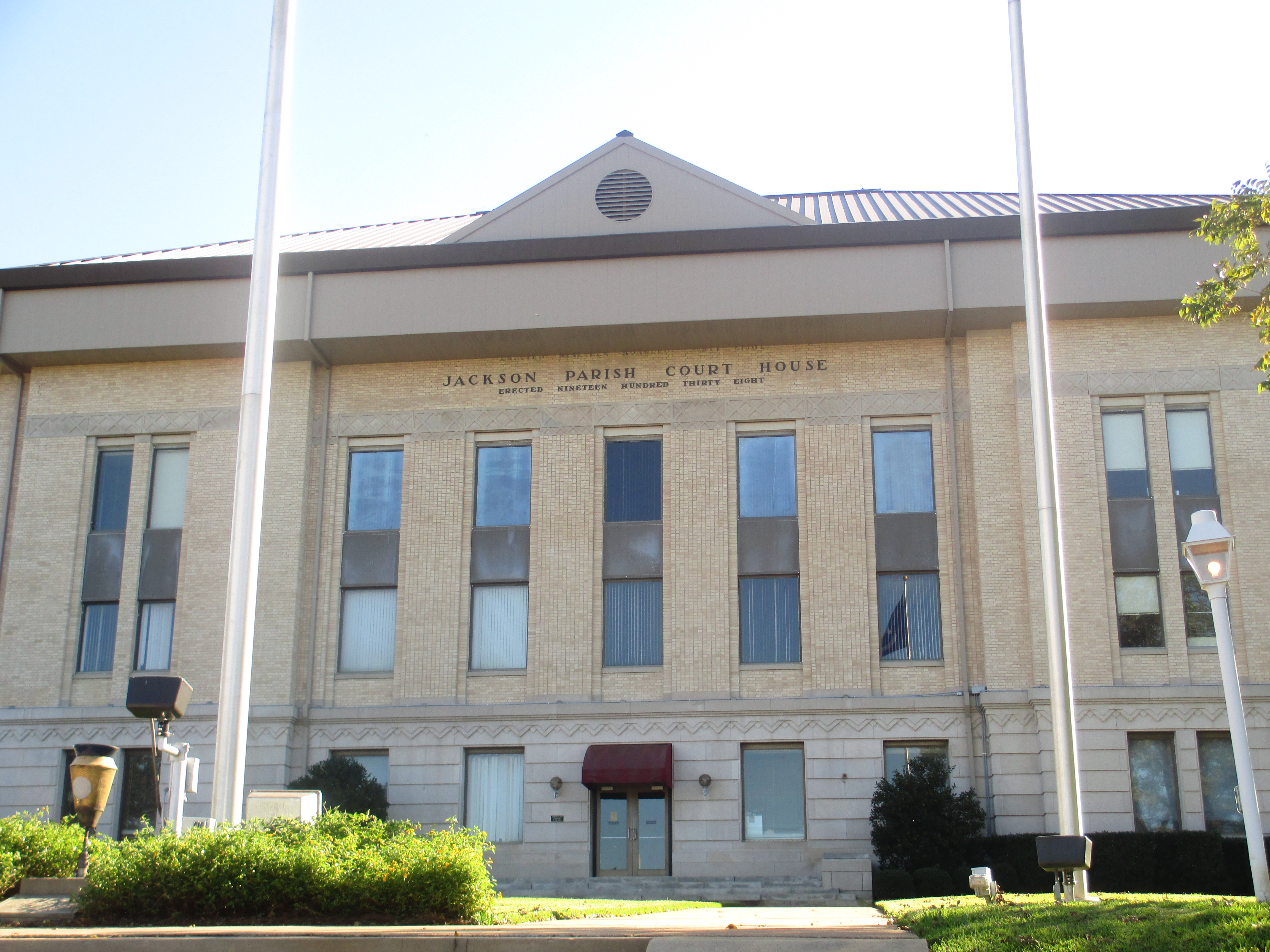 I took photo with Canon camera of Jackson Parish Courthouse in Jonesboro, LA.